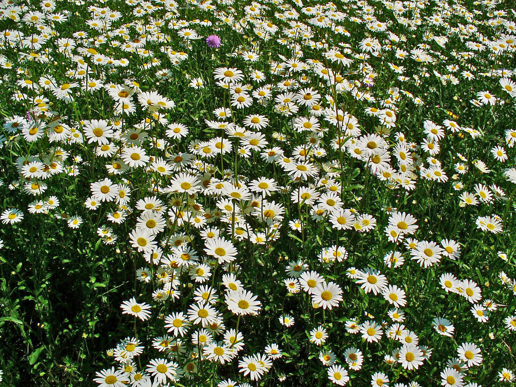 Leucanthemum vulgare, Asteraceae, Oxeye Daisy, Marguerite, habitus; Karlsruhe, Germany.